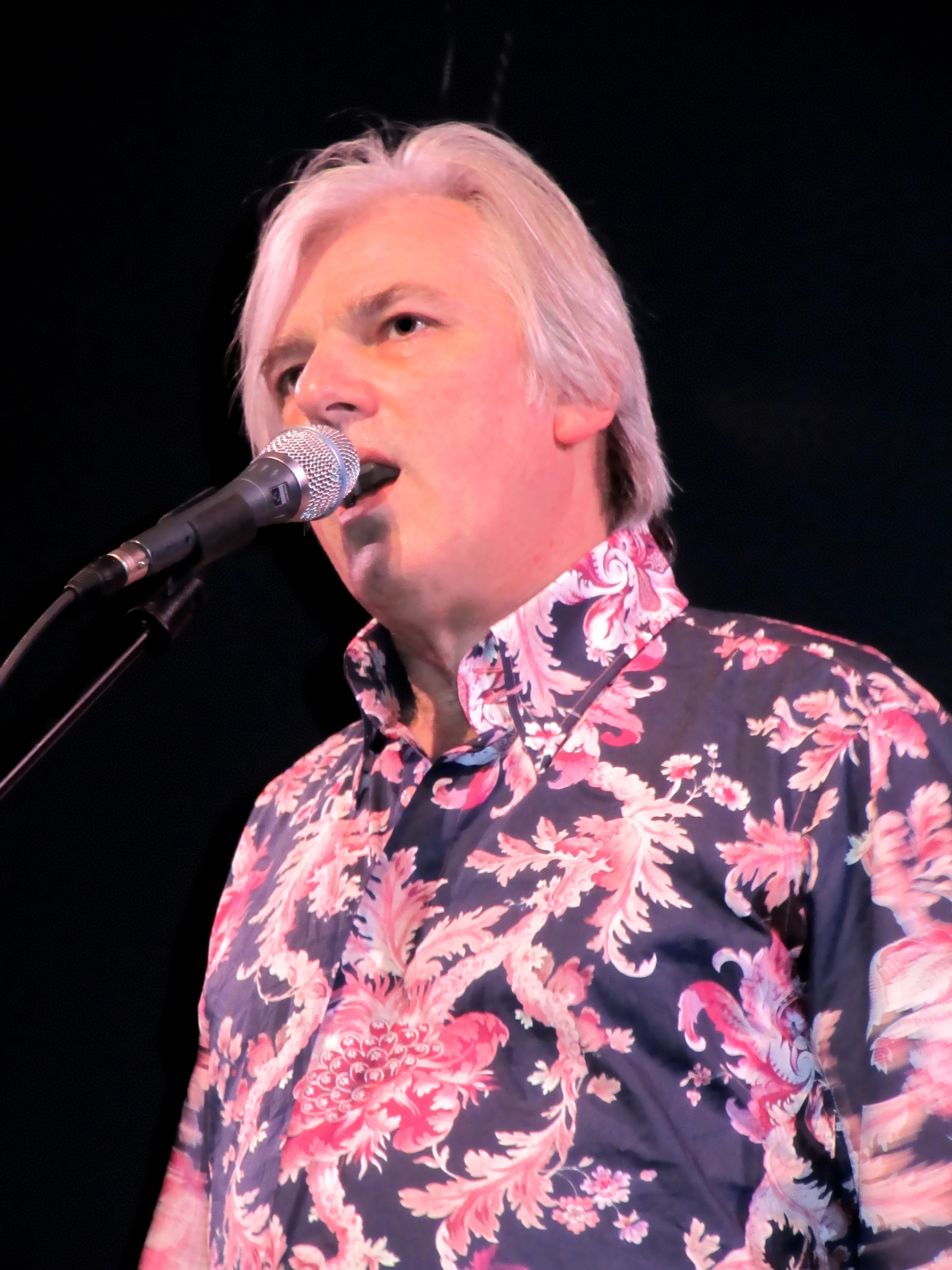 Photo of Robyn Hitchcock during a 2010 visit to the Coolidge Corner Theatre in Brookline, Massachusetts. He was there with Jonathan Demme and Declan Quinn for the local premiere of Neil Young Trunk Show.